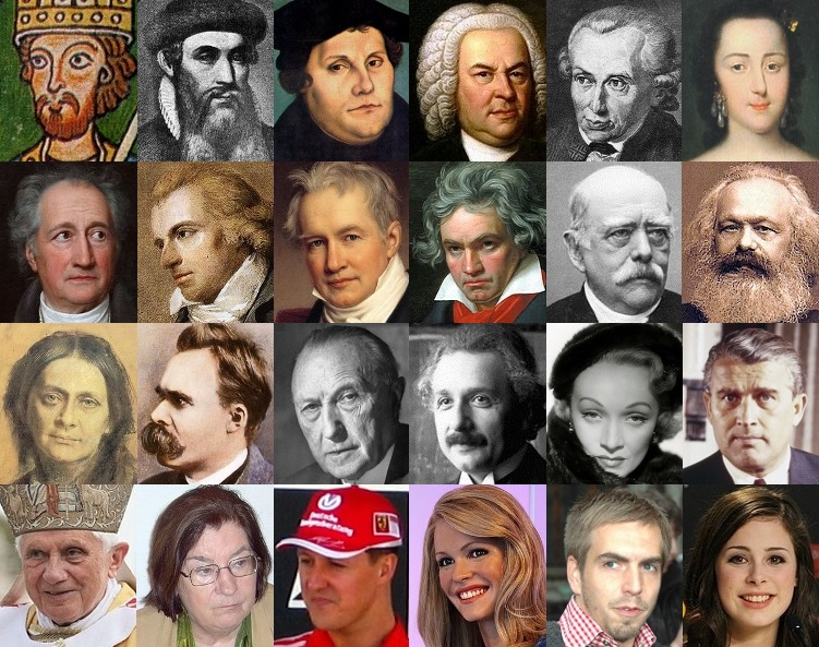 Photos of 24 famous Germans